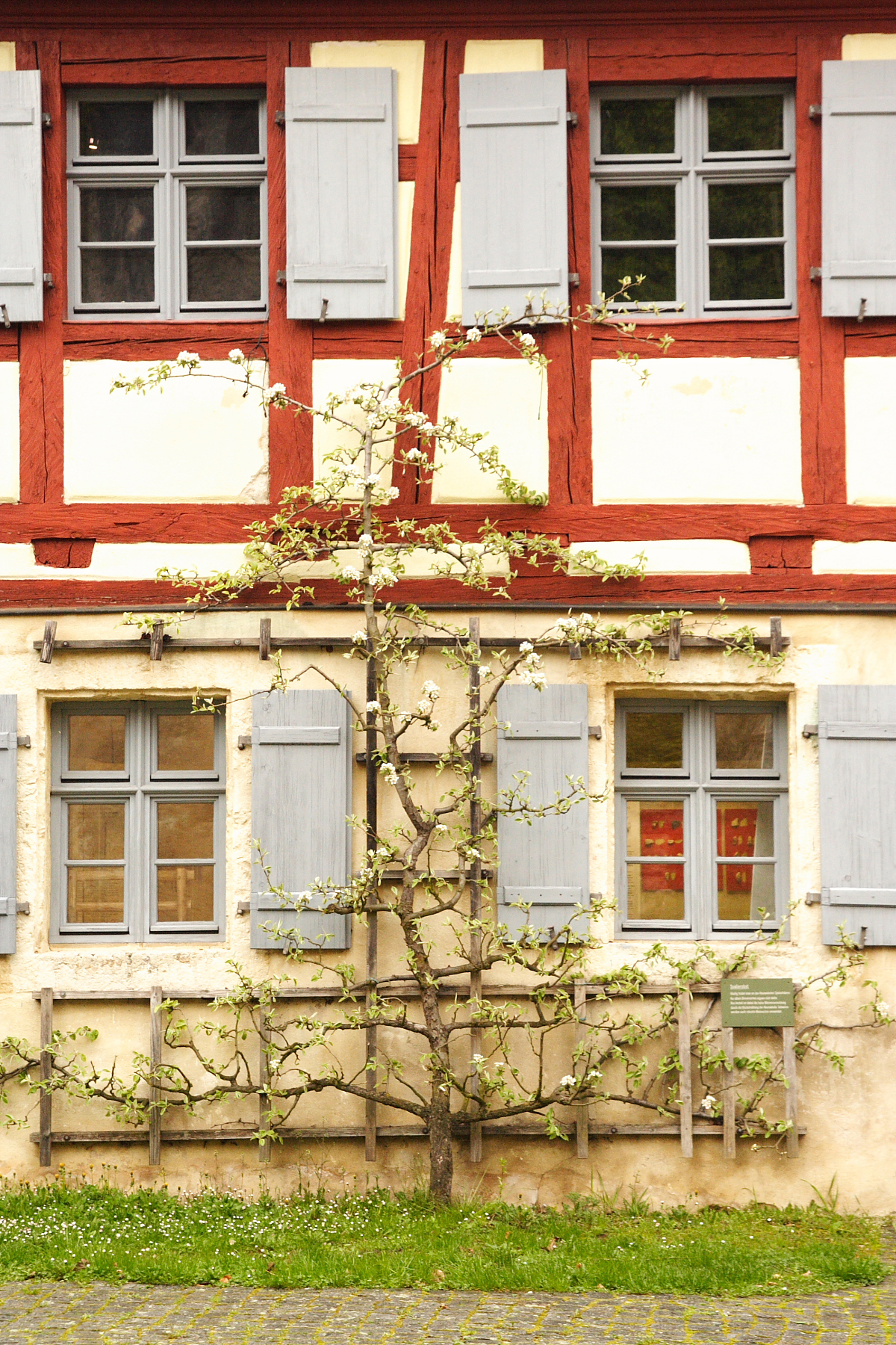 Espalier. The fruit at the wall and at your hand, retains the heat overnight, matures fruits more quickly and even exotic kinds.